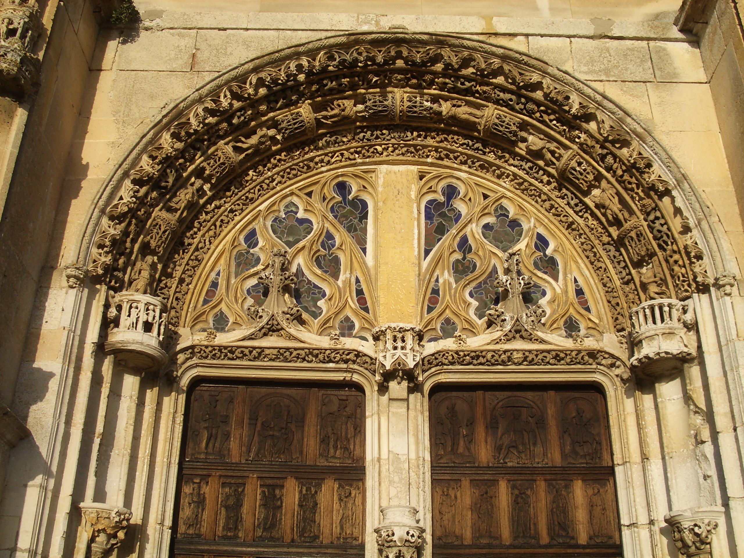 The main door of Ménilles church